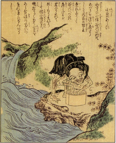 Azukiarai (小豆洗, A spirit that makes the sound of azuki beans being washed) from the Ehon Hyaku monogatari (絵本百物語)